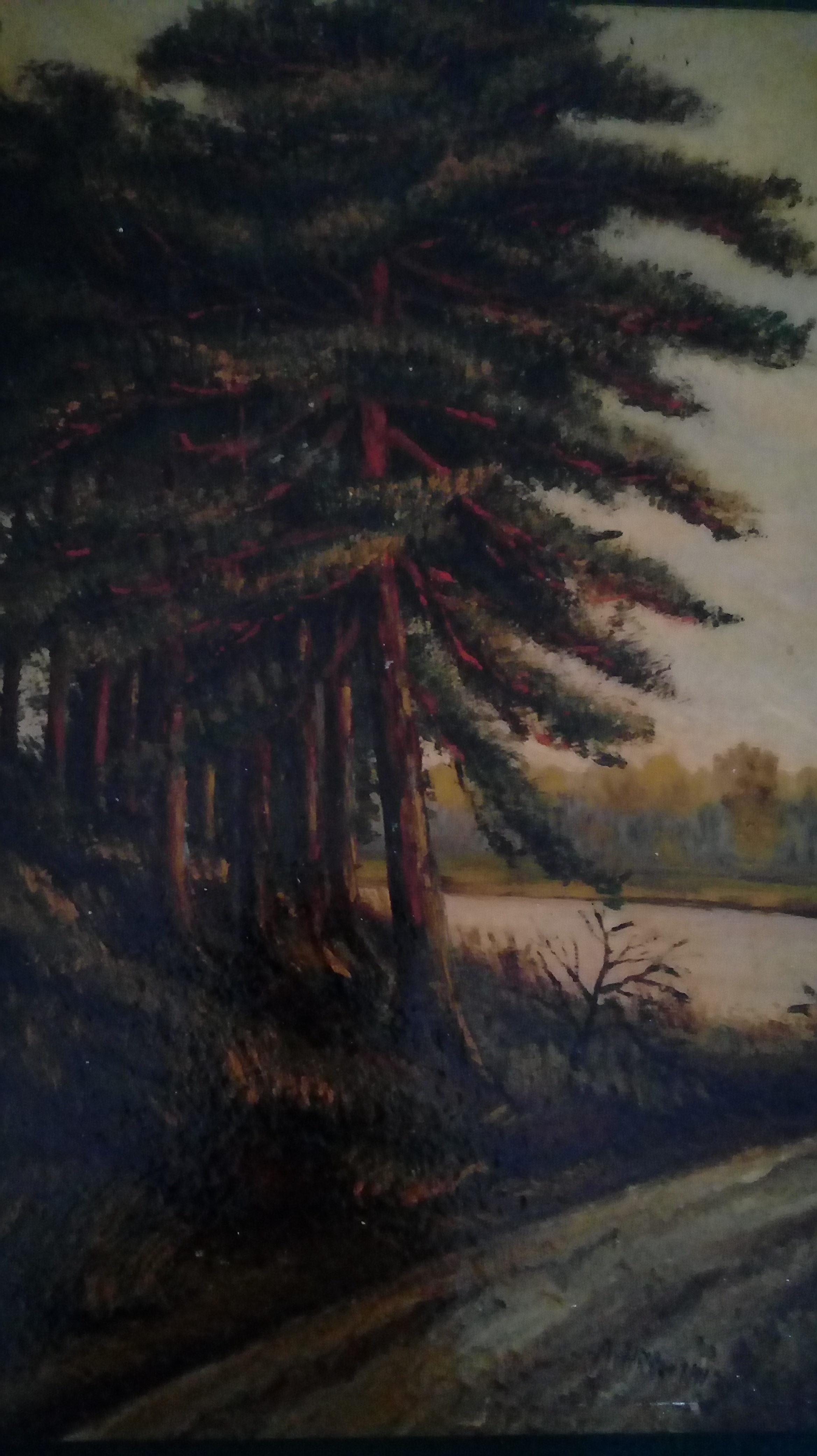 Tree at a track with a lake by Adolf Hitler from 1911